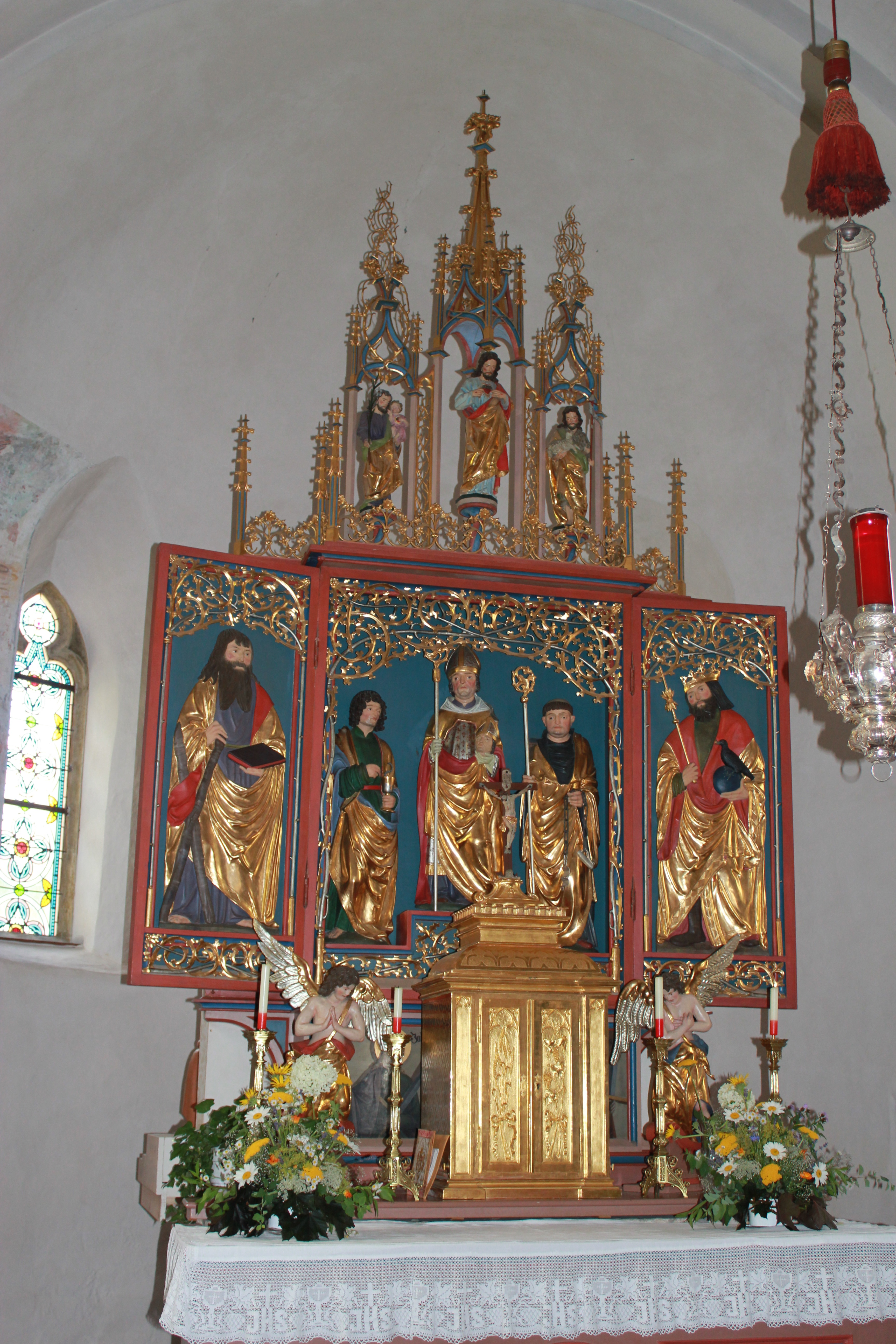 Parish church Irschen - main altar